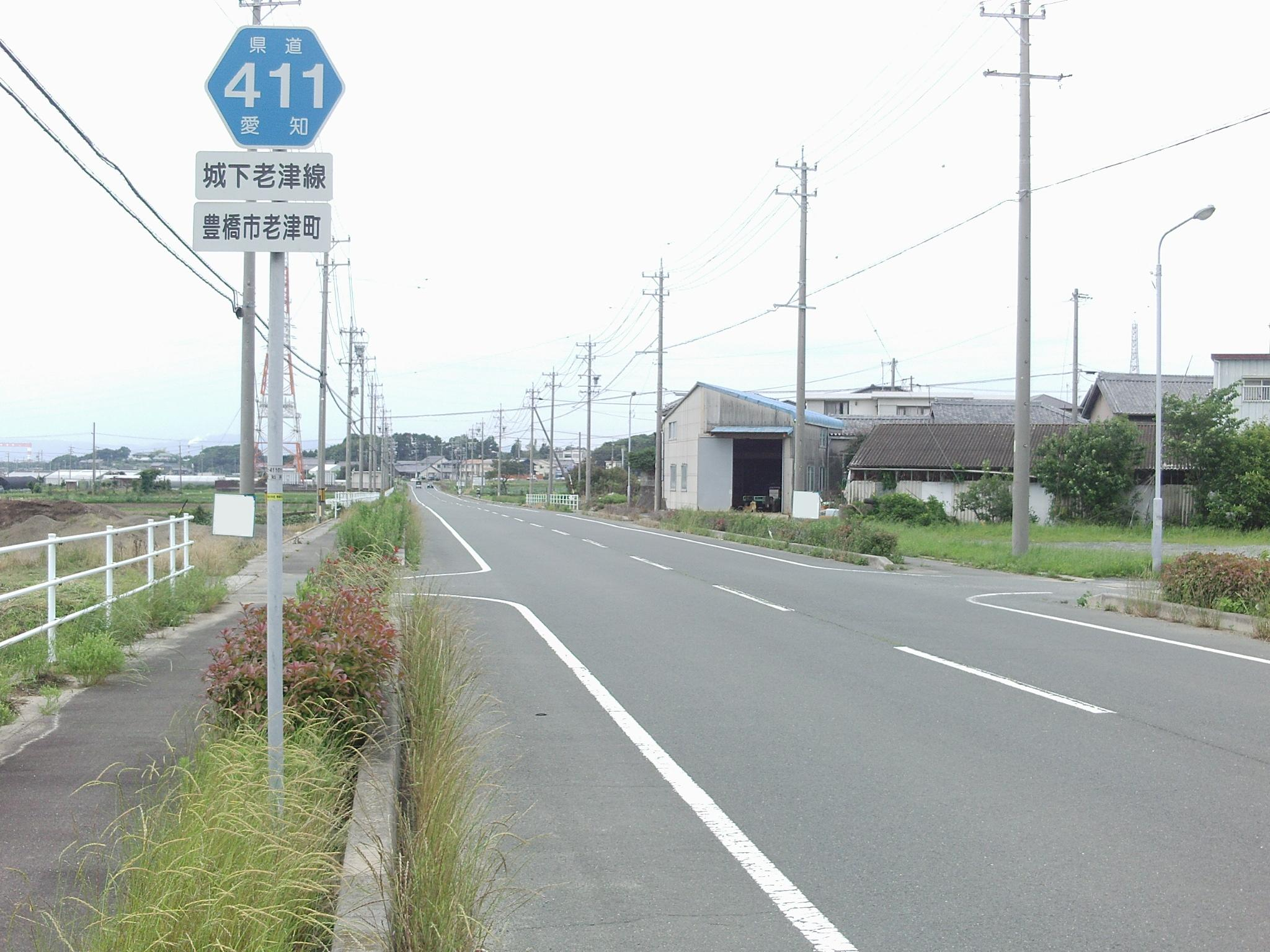 Aichi prefectural road No.411 in Oitsucho, Toyohashi, Aichi.